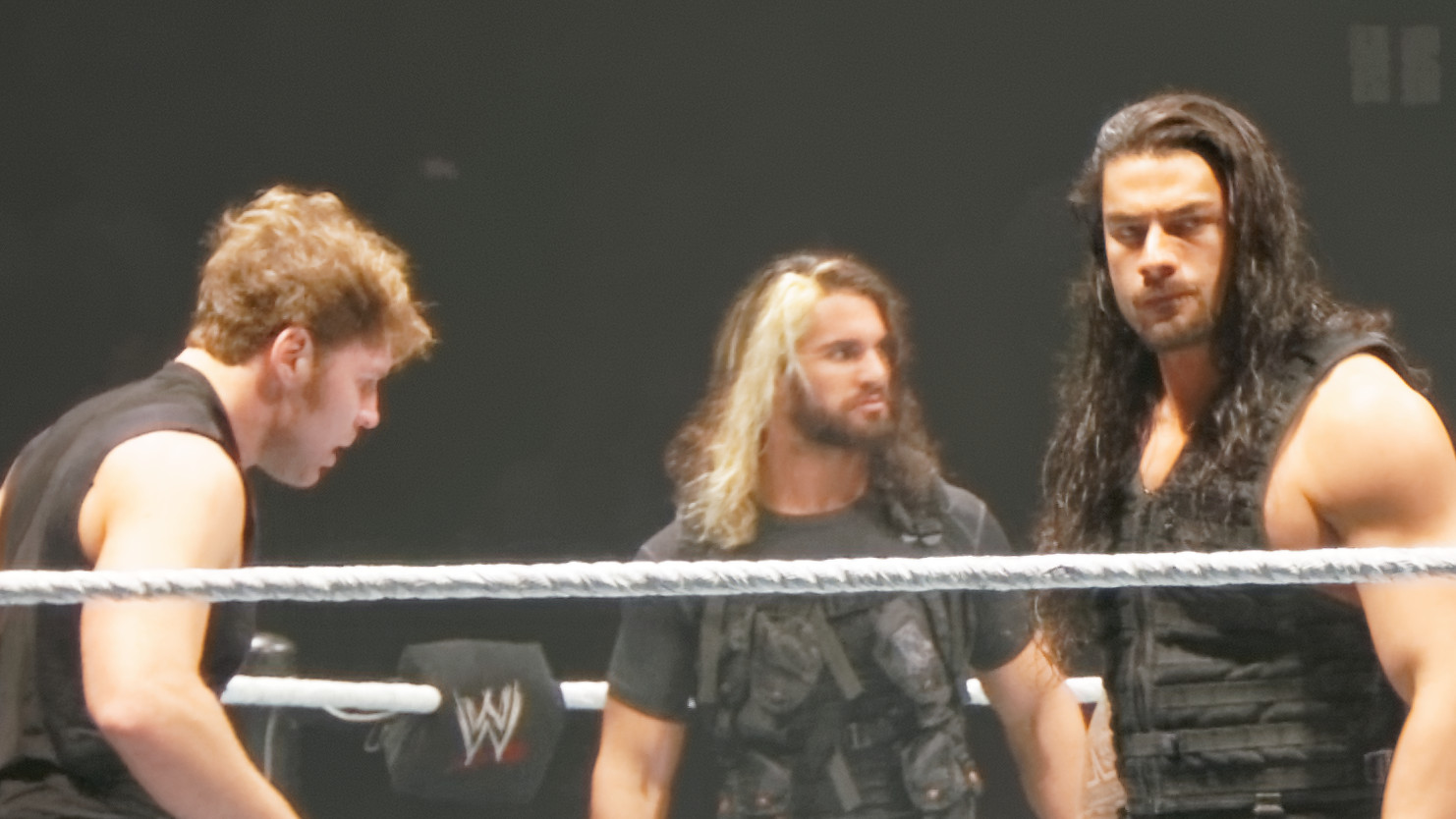 The Shield (from left; Dean Ambrose, Seth Rollins and Roman Reigns) at a WWE house show in Vorst, Belgium on November 8, 2013.